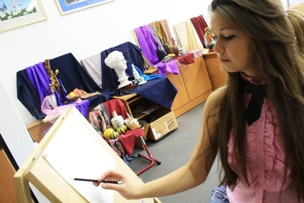 Technological college №14 - a painting Office